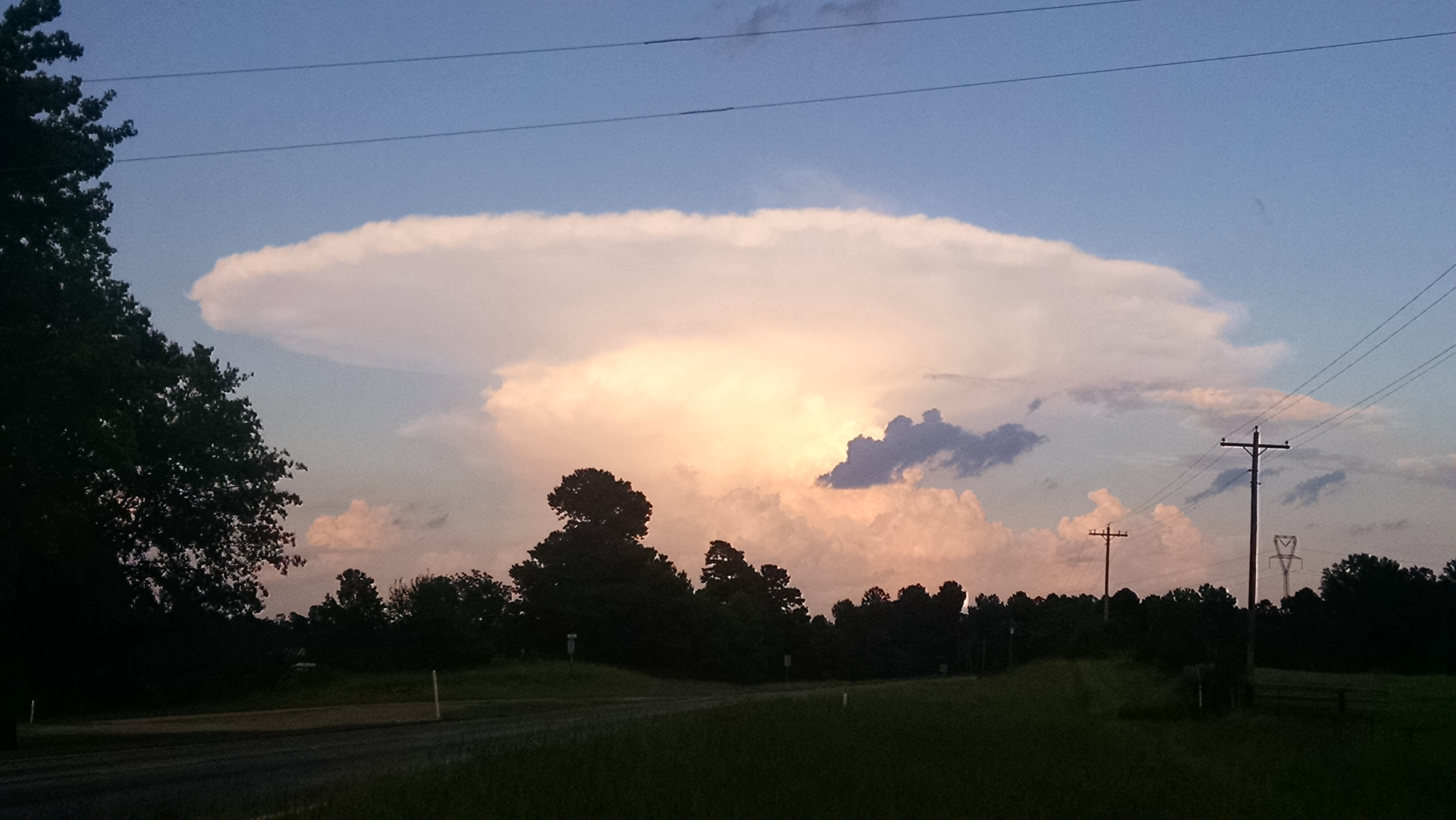 A thunderstorm in an environment with no winds to shear the storm or blow the anvil in any one direction. Taken in Maud, Texas looking east with storm being located in Arkansas.